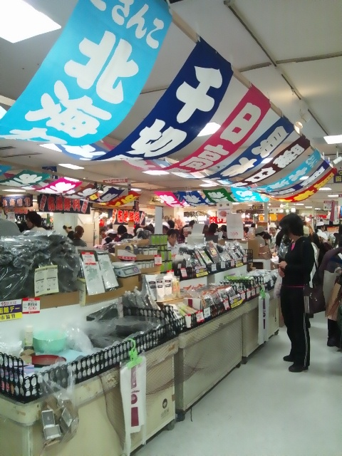 The Hokkaido Products Exhibition at Yamakataya Department Store ( Kagoshima Prefecture, Japan)